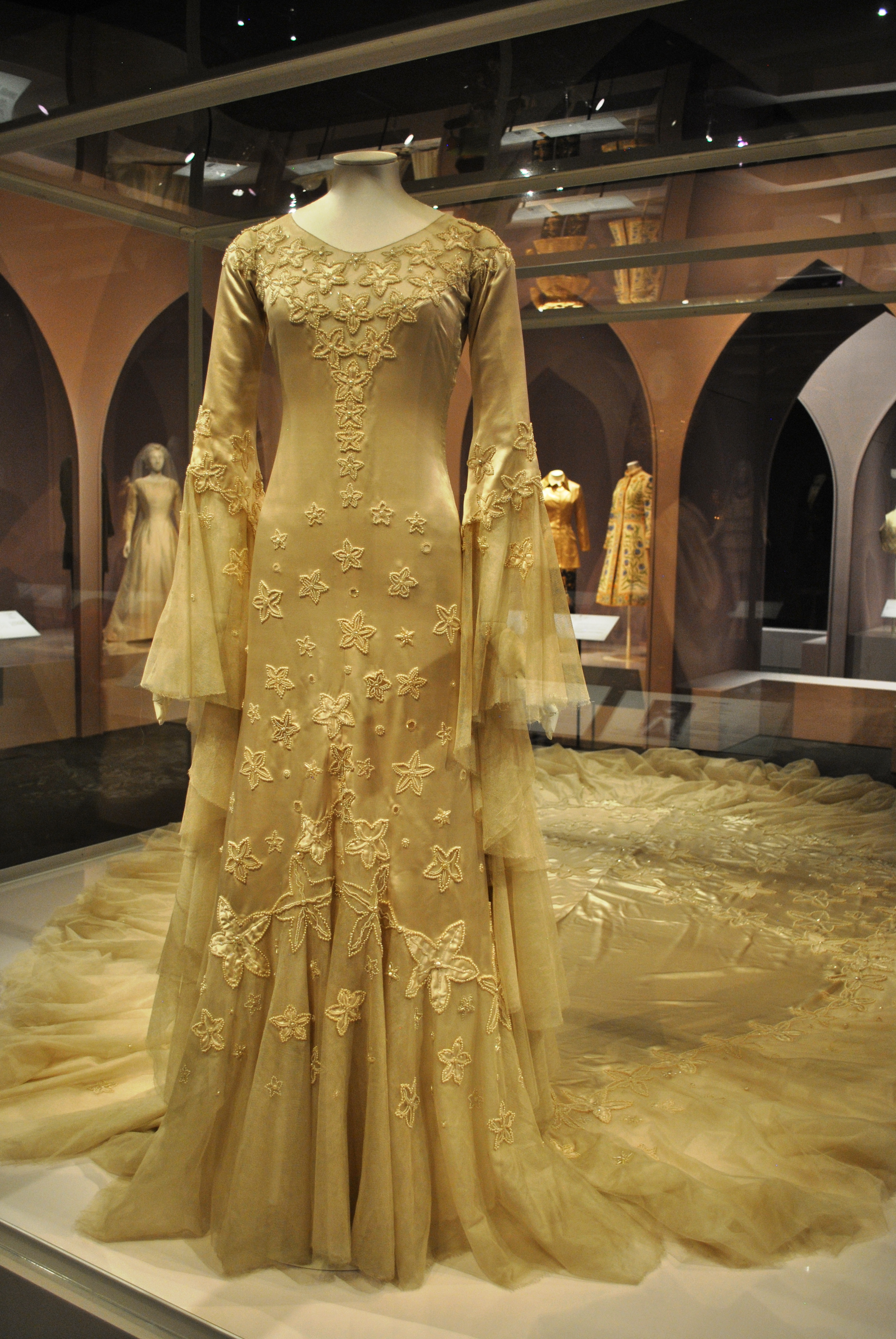 Wedding dress worn by Margaret Whigham, later the Duchess of Argyll, for her marriage to Charles Sweeny in the Brompton Oratory, London, on 21 February 1933. Designed by Norman Hartnell. Silk satin and tulle, embroidered with glass beads. In the collection of the Victoria & Albert Museum, London, catalogue numbers T.836-1974 and T.306-1978.[1]